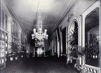 c. 1898 photograph of the White House Cross Hall during the Administration of William McKinley.